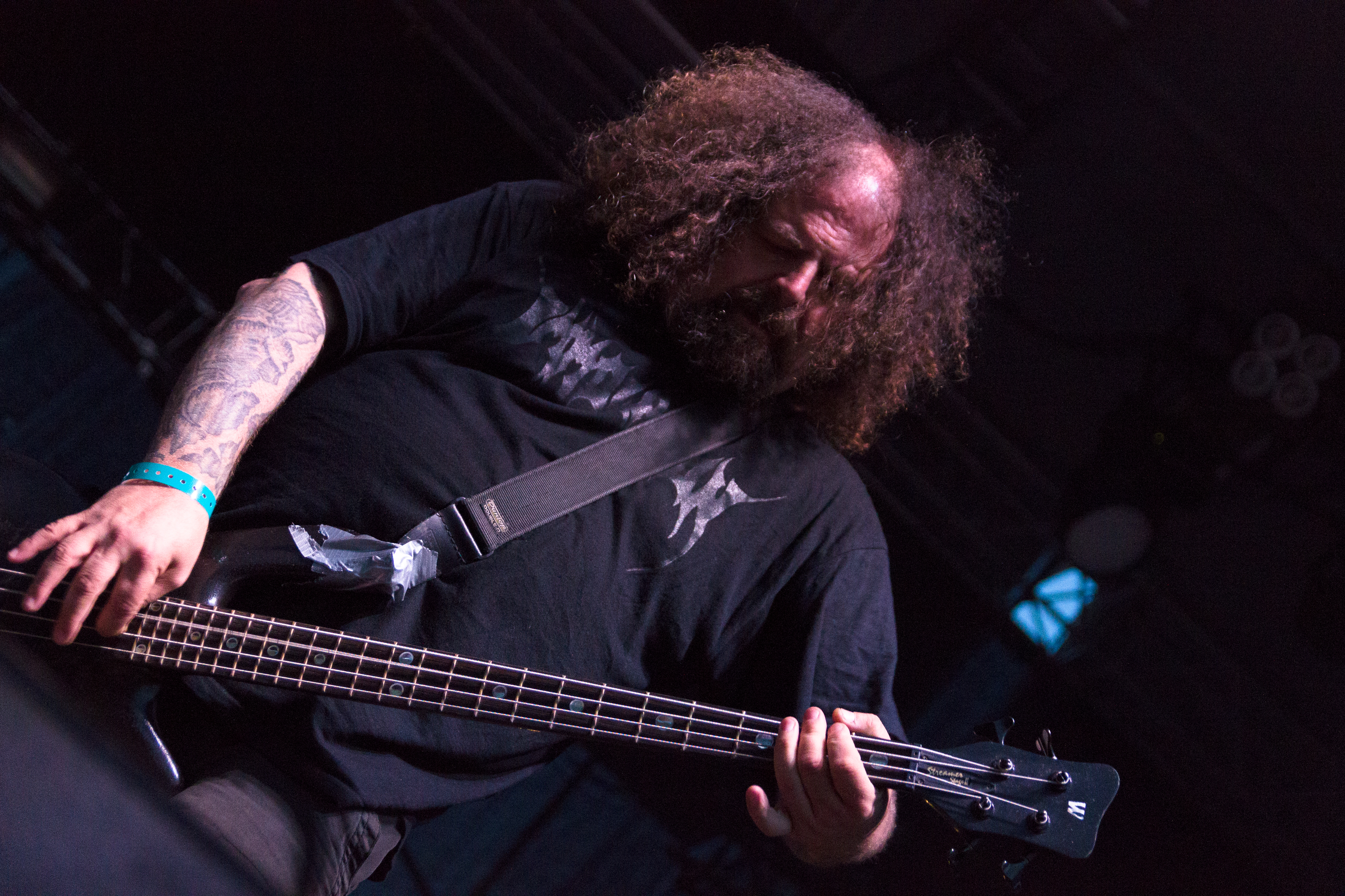 Napalm Death during the concert at the Ursynalia Warsaw Student Festiwal, Poland, 2015.